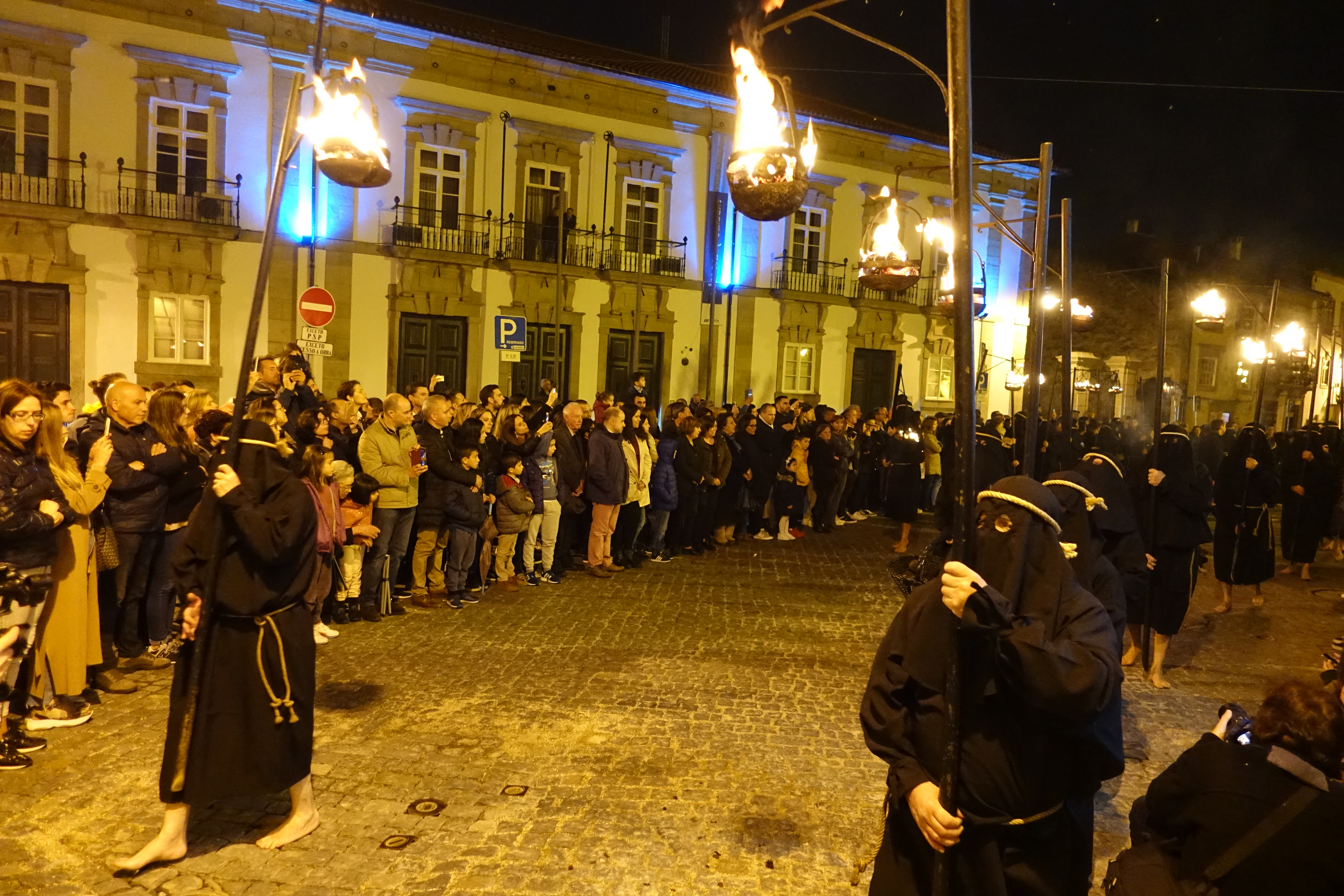 Ecce Homo Procession 2019 in Braga, Portugal.